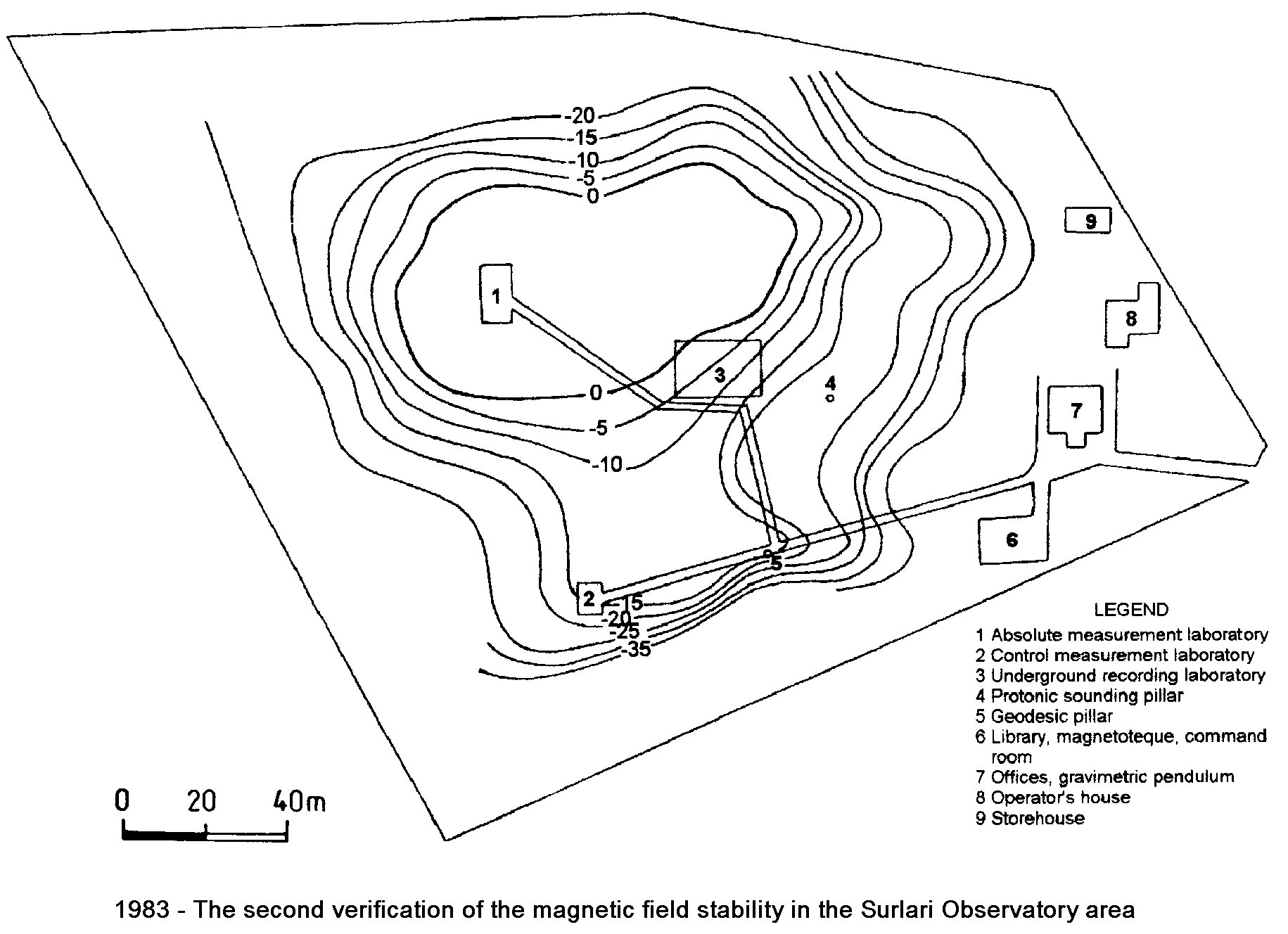 Surlari Geomagnetic Observatory, Verification of magnetic field stability (1983).